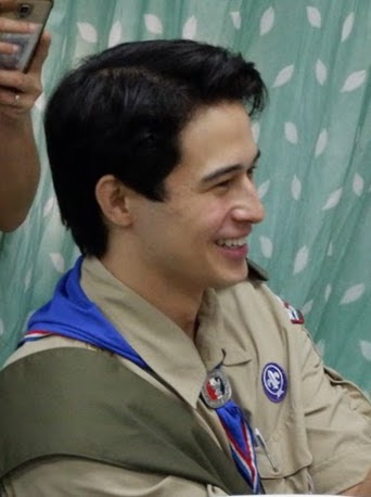 Ivan Dorschner celebrated his 27th birthday with the Boy Scouts of the Philippines at the BSP headquarters, Manila on September 25, 2017